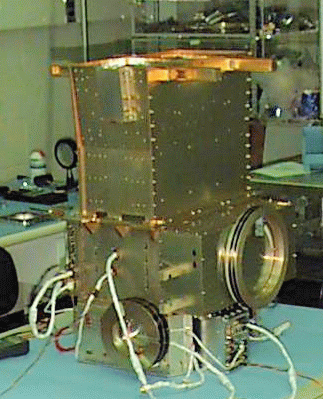 WXM instrument casing HETE spacecraft